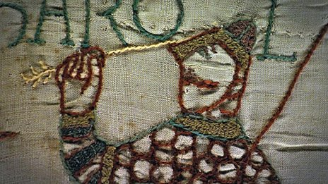 Detail from Bayeux tapestry scene 57. Arrow in King Harold's eye.